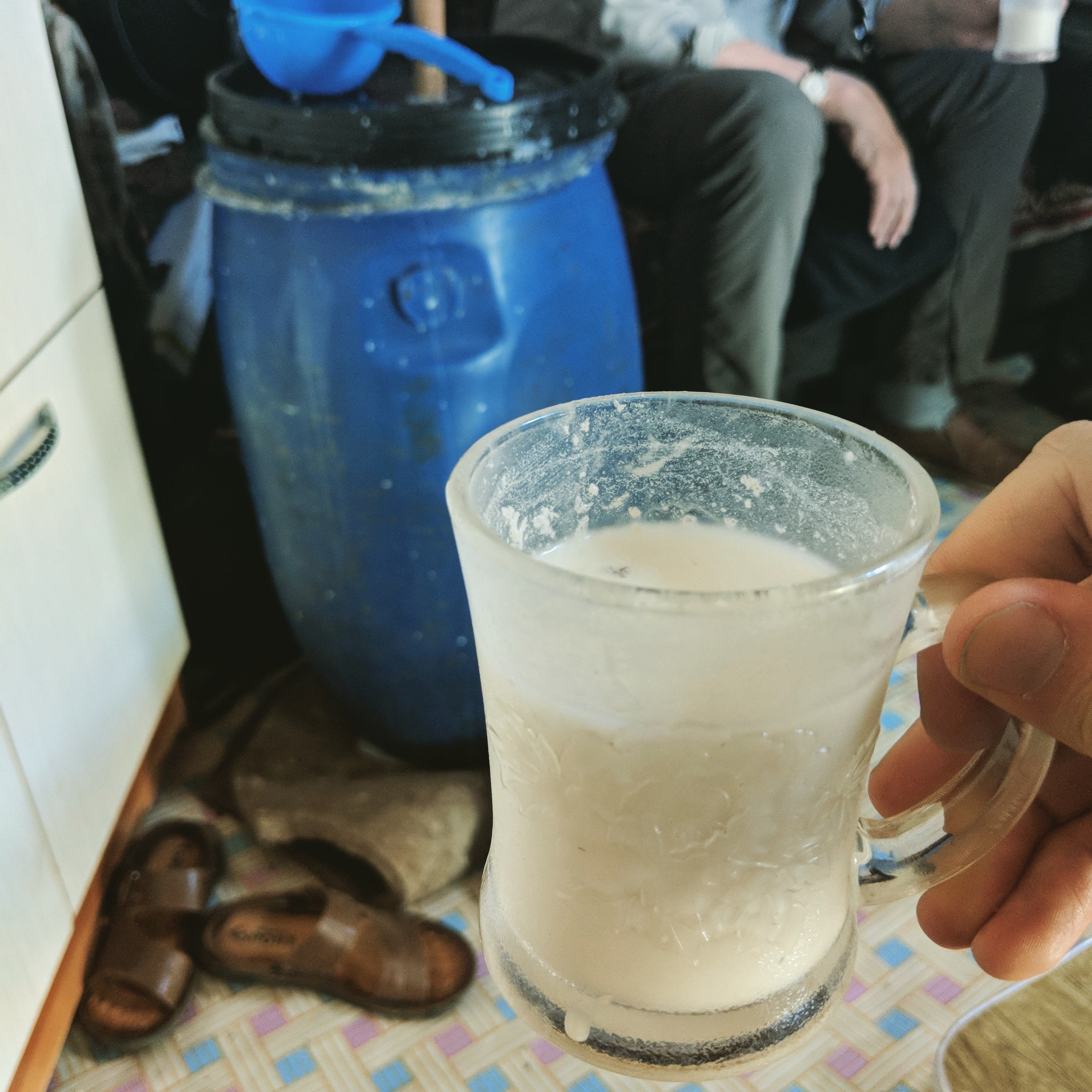 A glass of airag (fermented mare's milk), prepared in the plastic barrel in the background and served in a yurt in Mongolia.